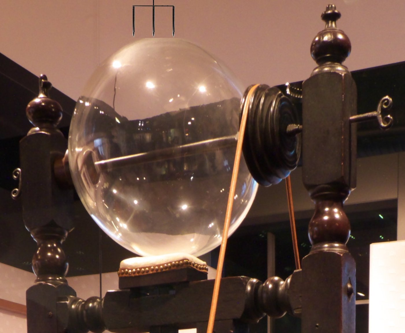 Franklin electrostatic machine globe close-up